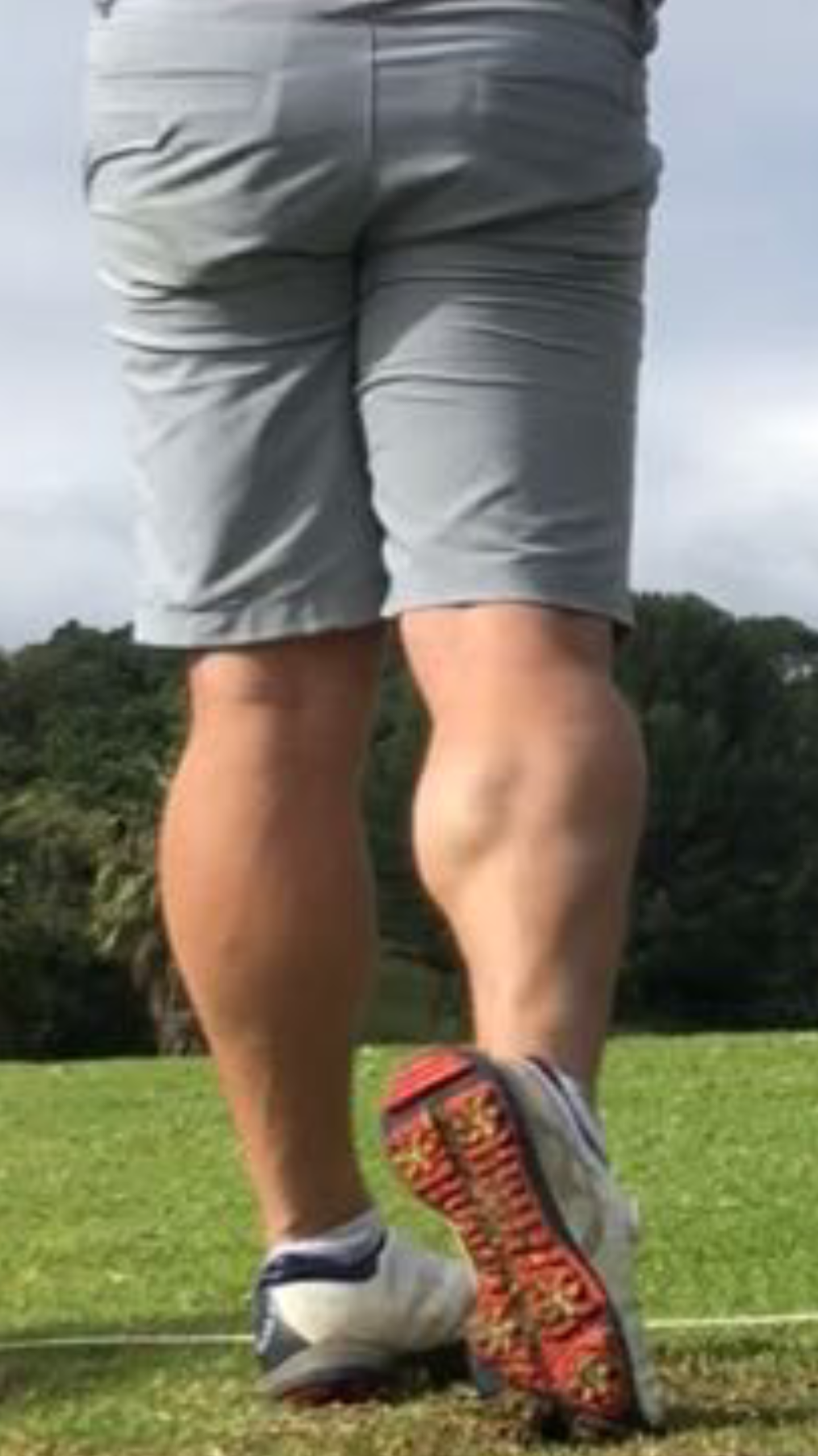 Calves